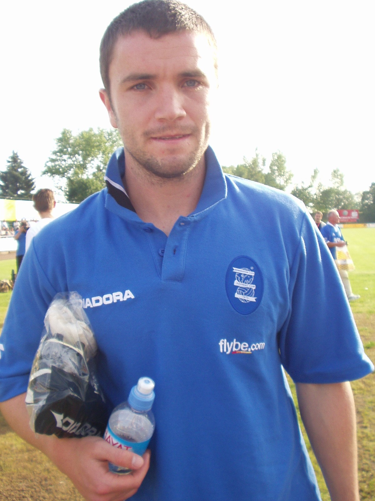 Northern Ireland international football (soccer) midfielder Damien Johnson (Birmingham City F.C.) photographed before pre-season friendly match VfB Poessneck (Germany) v Birmingham City FC